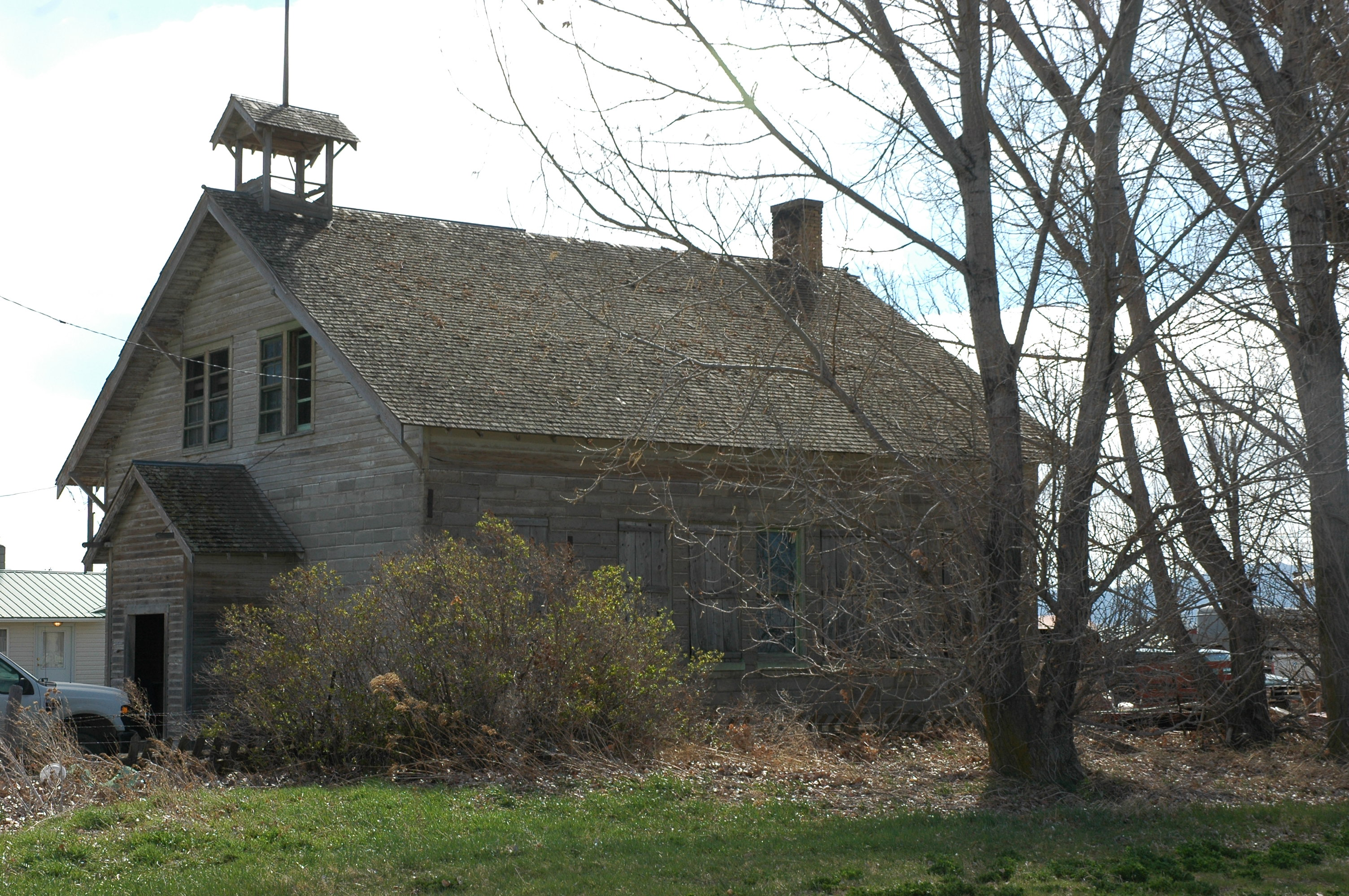 The Empire School, a historic schoolhouse just south of Rupert, Idaho.